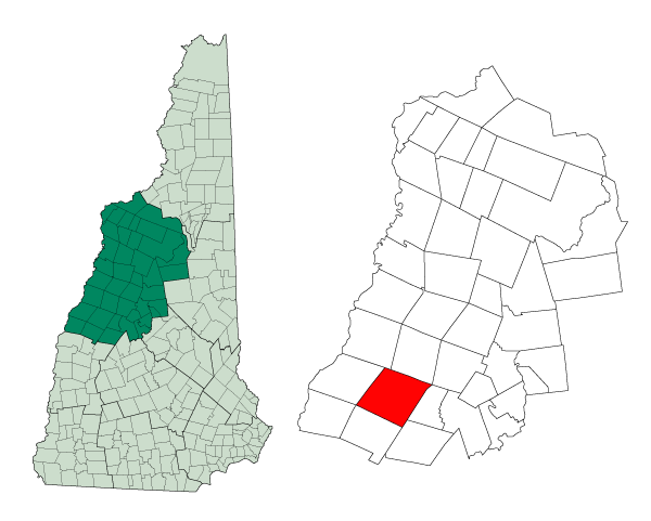 Map of a municipality in Belknap County, New Hampshire